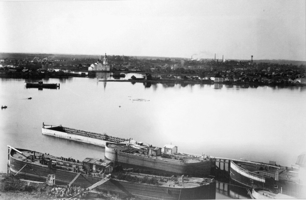 Yaroslavl. River spill Kotorosl 1920